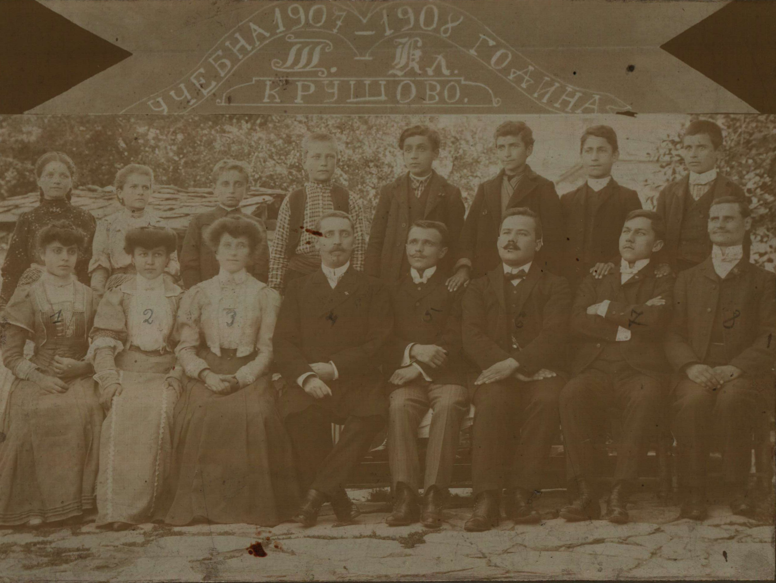 Krushevo Teachers: Spasia Popnaumova, Flora Ivanova, Maria Mitseva, Ahil Minchev, Nikola Leshnika, Iliya Vasilev, Georgi Popbogdanov and Matey.